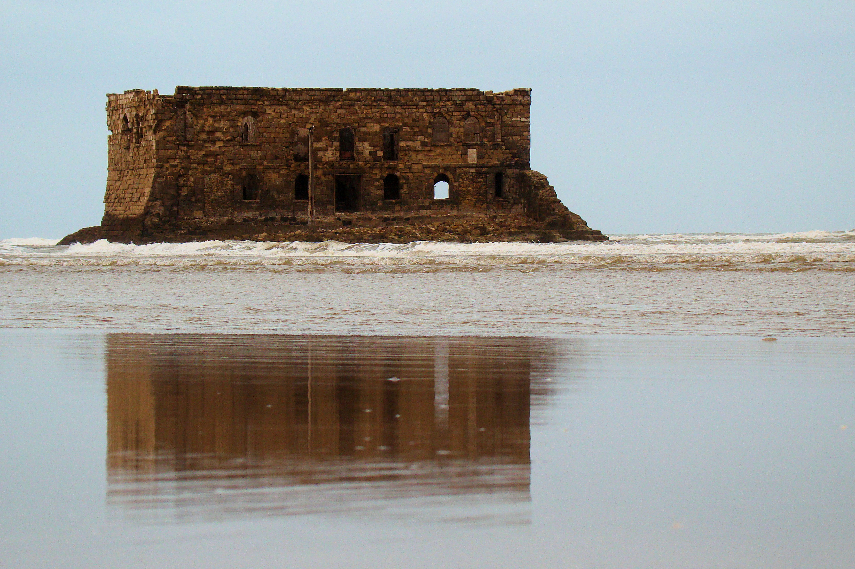 The remains of the Casa Mar fortress built by the British in the 1880s in Tarfaya, Morocco.